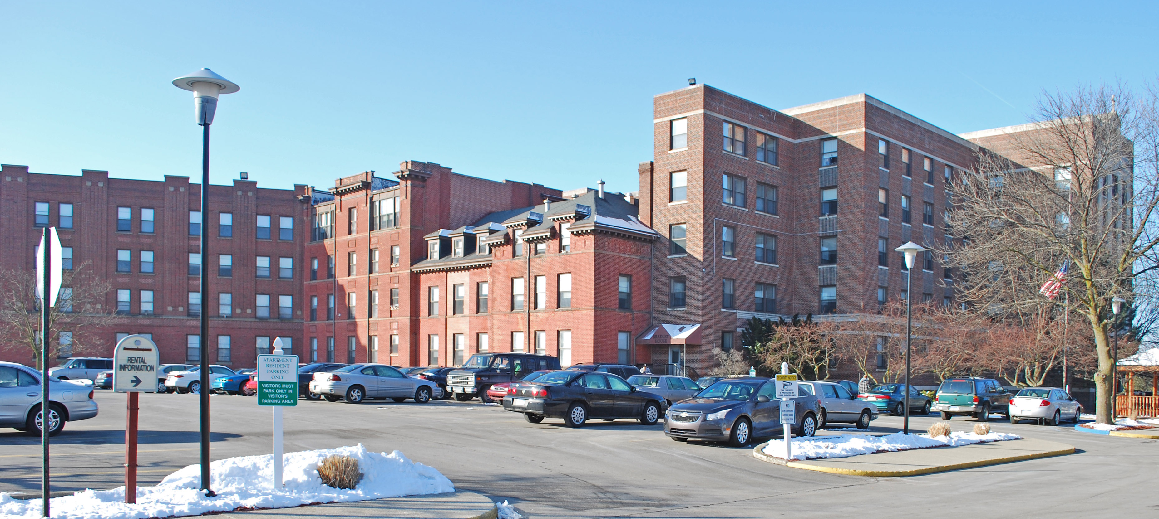 Mercy Hospital Bay City MI